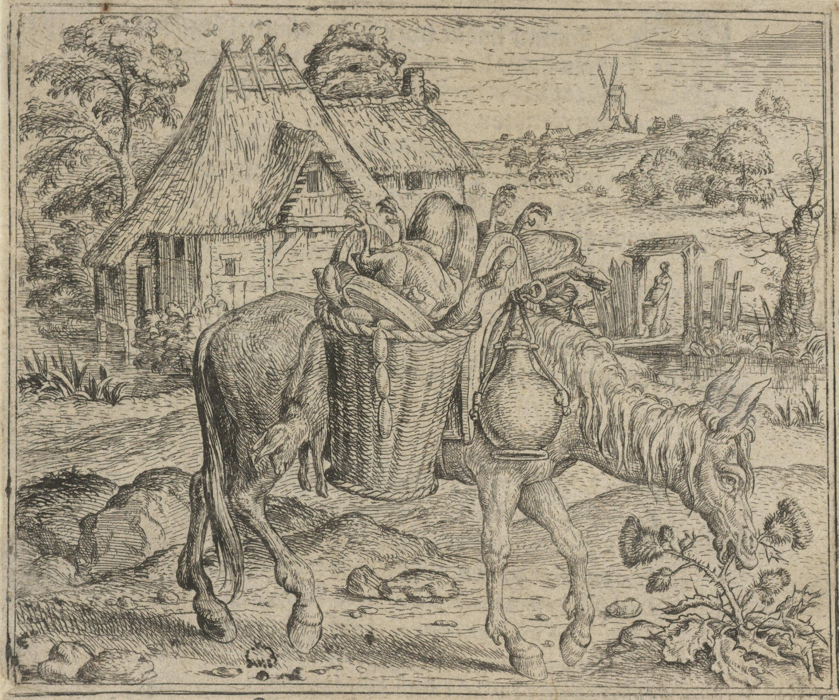 Illustration from the De warachtighe fabulen der dieren by Edewaerd de Dene, published by Pieter de Clerck in Bruges, 1567.